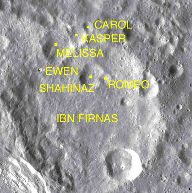 Small craters with own names in Ibn Firnas north area